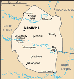 Eswatini map from the 2012 CIA World Factbook